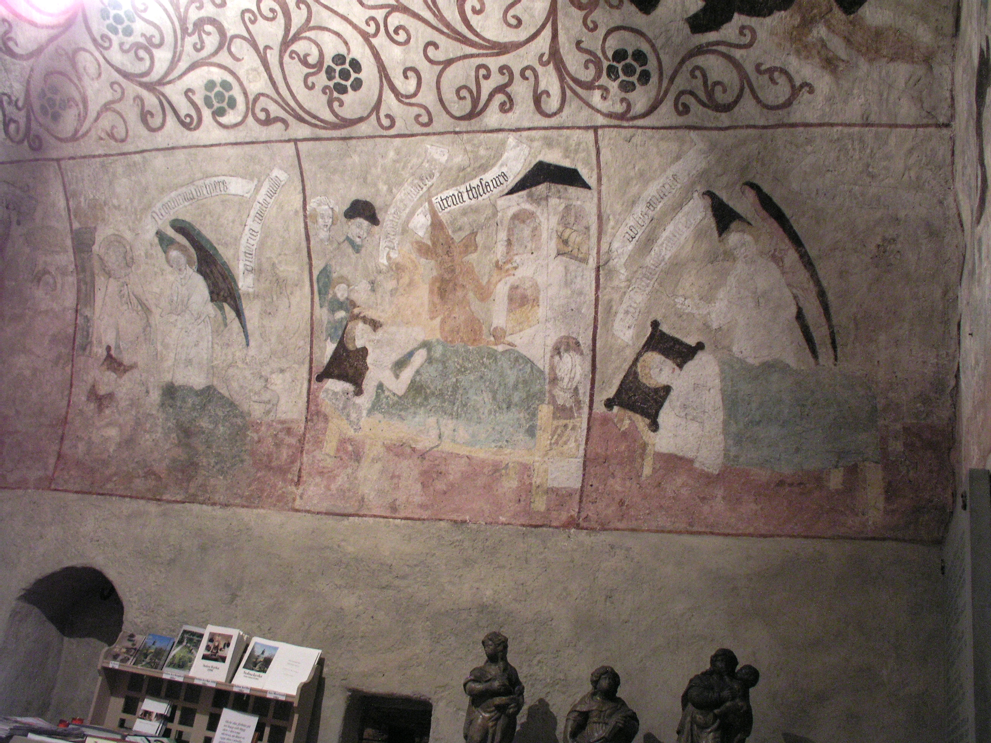 Solna Kyrka / Solna Church. Stockholms stift, Solna kommun.